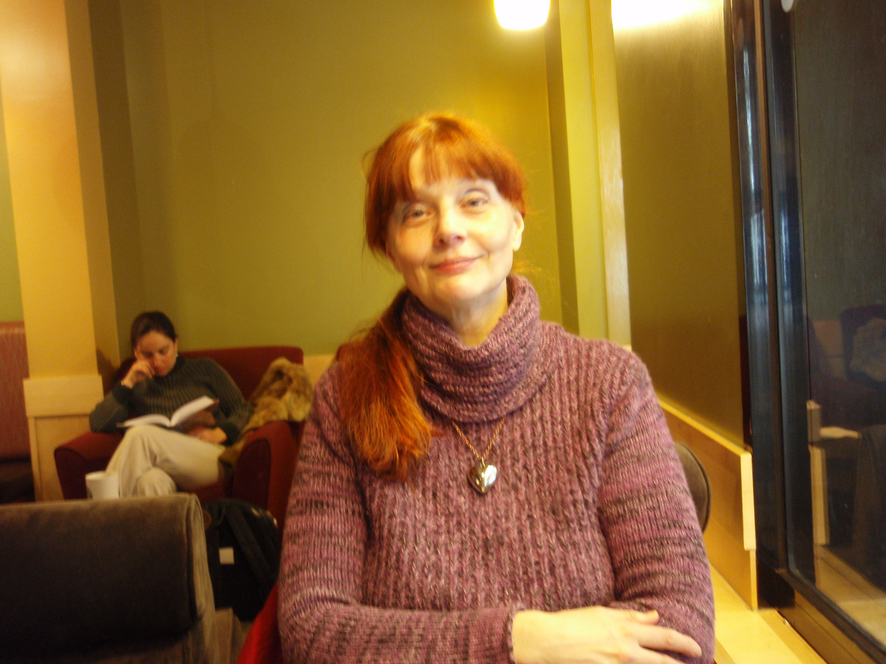 Susanna Roxman